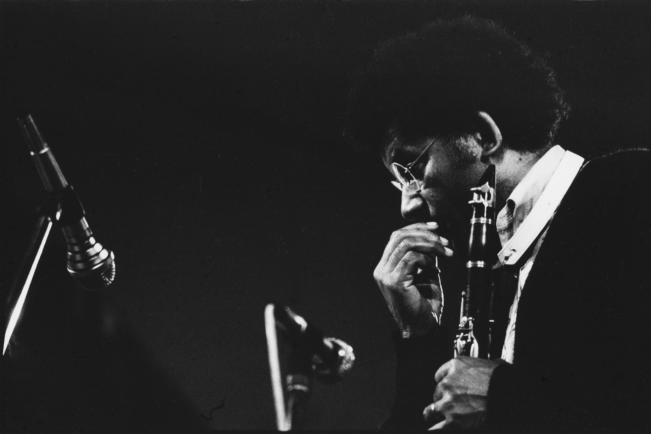 Anthony Braxton, International Jazz Festival, Prague, Lucerna Music Hall, 20 October 1984